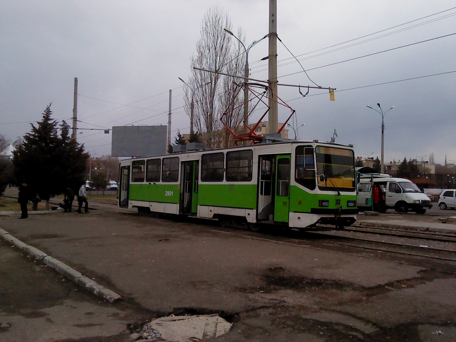 UTM-2 in Tashkent, Farobi street